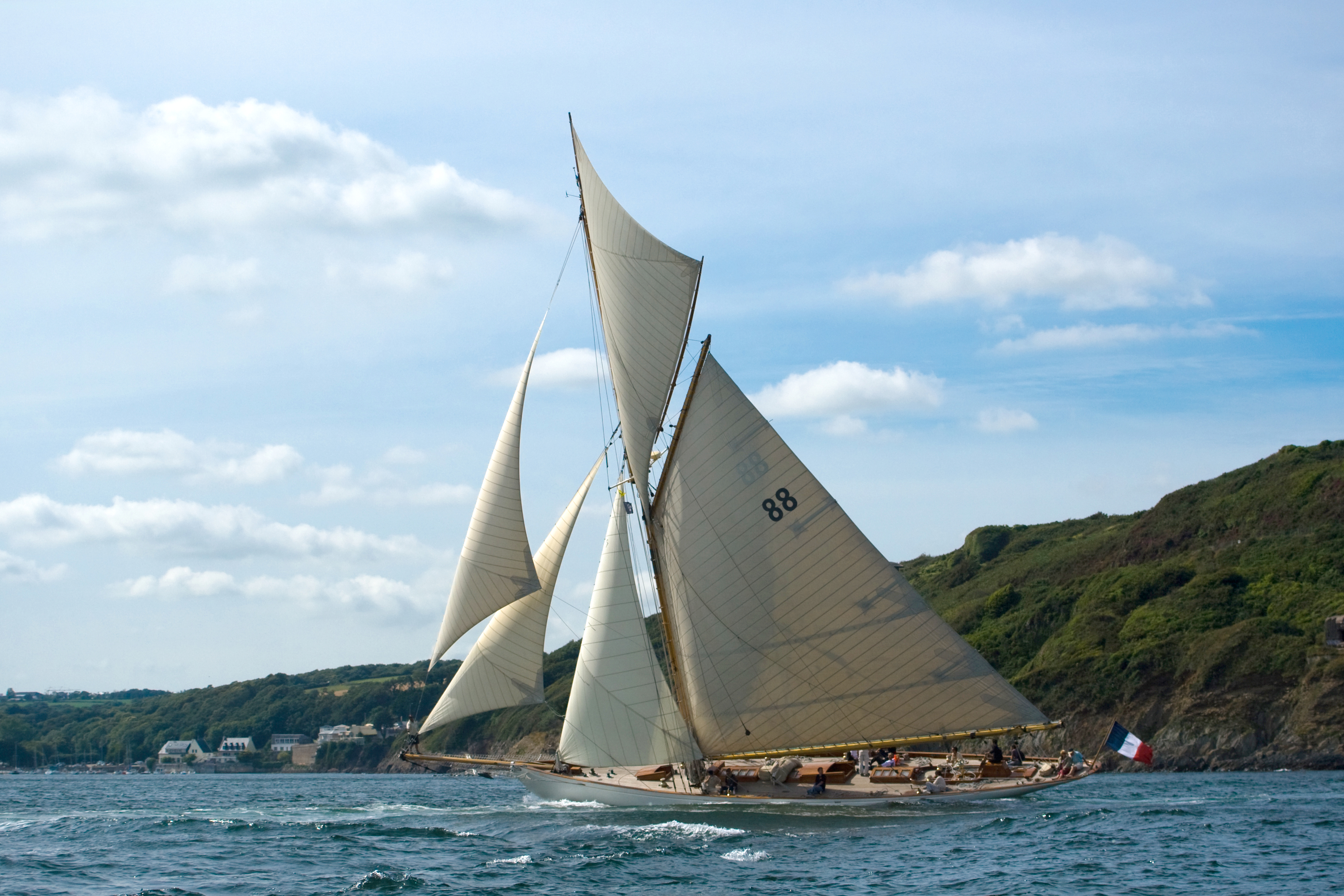 The sailing yacht Moonbeam (William Fife design, 1903) pictured during the “Brest 2008” maritime fest.